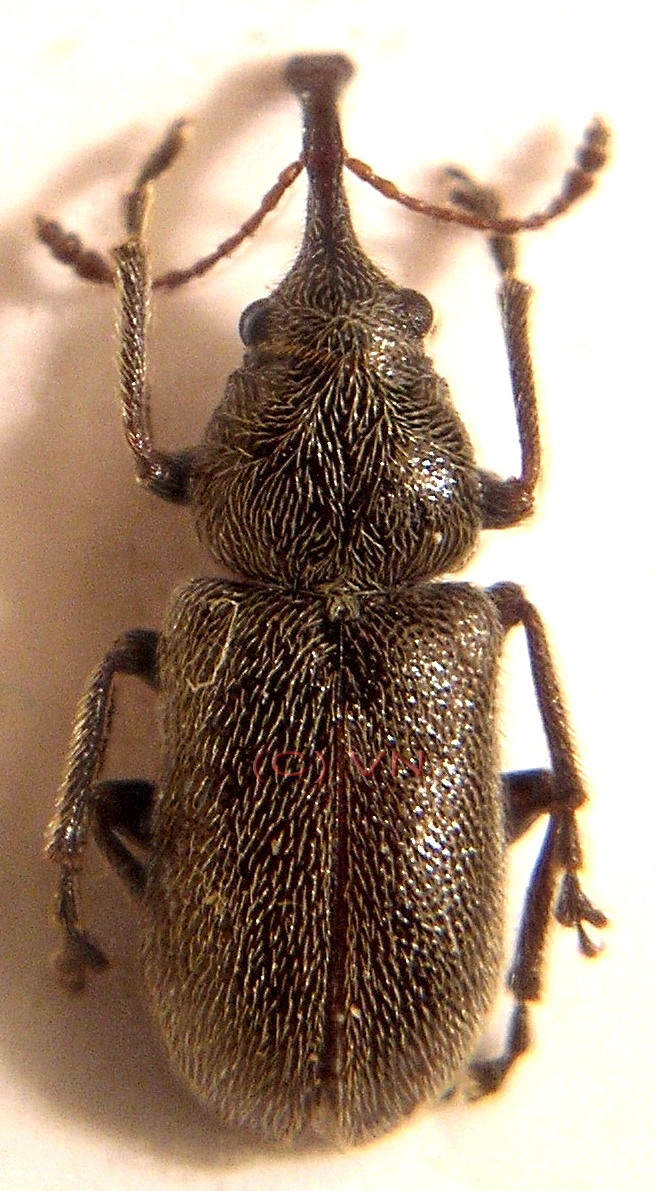 Doydirhynchus austriacus (Olivier, 1807) Author: VN